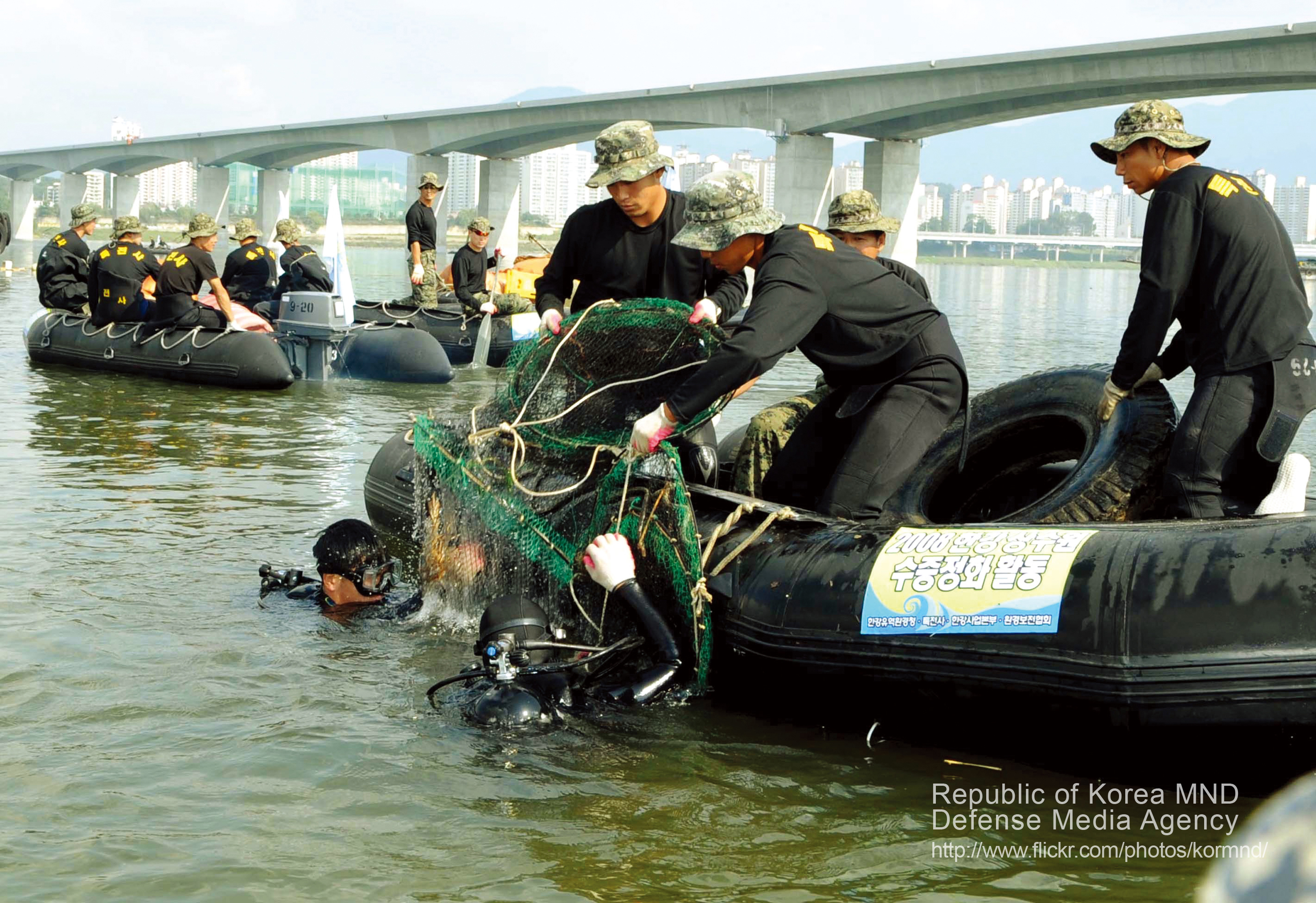 2008 국방화보 Rep. of Korea, Defense Photo Magazine 10월 7일 수중 정화활동에 나선 육군 특수전 사령부 장병들이 한강 강동대교 일대에서 폐타이어 등 각종 폐기물을 수거하고 있다. Underwater cleaning activities performed of ROK Army , October 7.